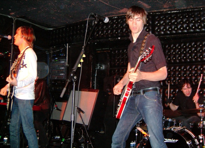 (Um, Gustaf is hawt, with his cheekbones, his cleft chin...sigh, swoon!! I'll stop now.)